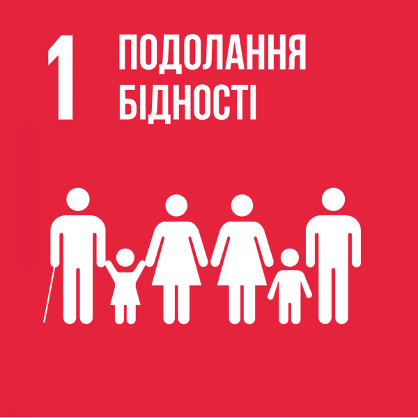 Sustainable Development Goals in UkrainianRomână: Obiectivul de dezvoltare durabilă nr. 1: Fără sărăcie (în ucraineană)